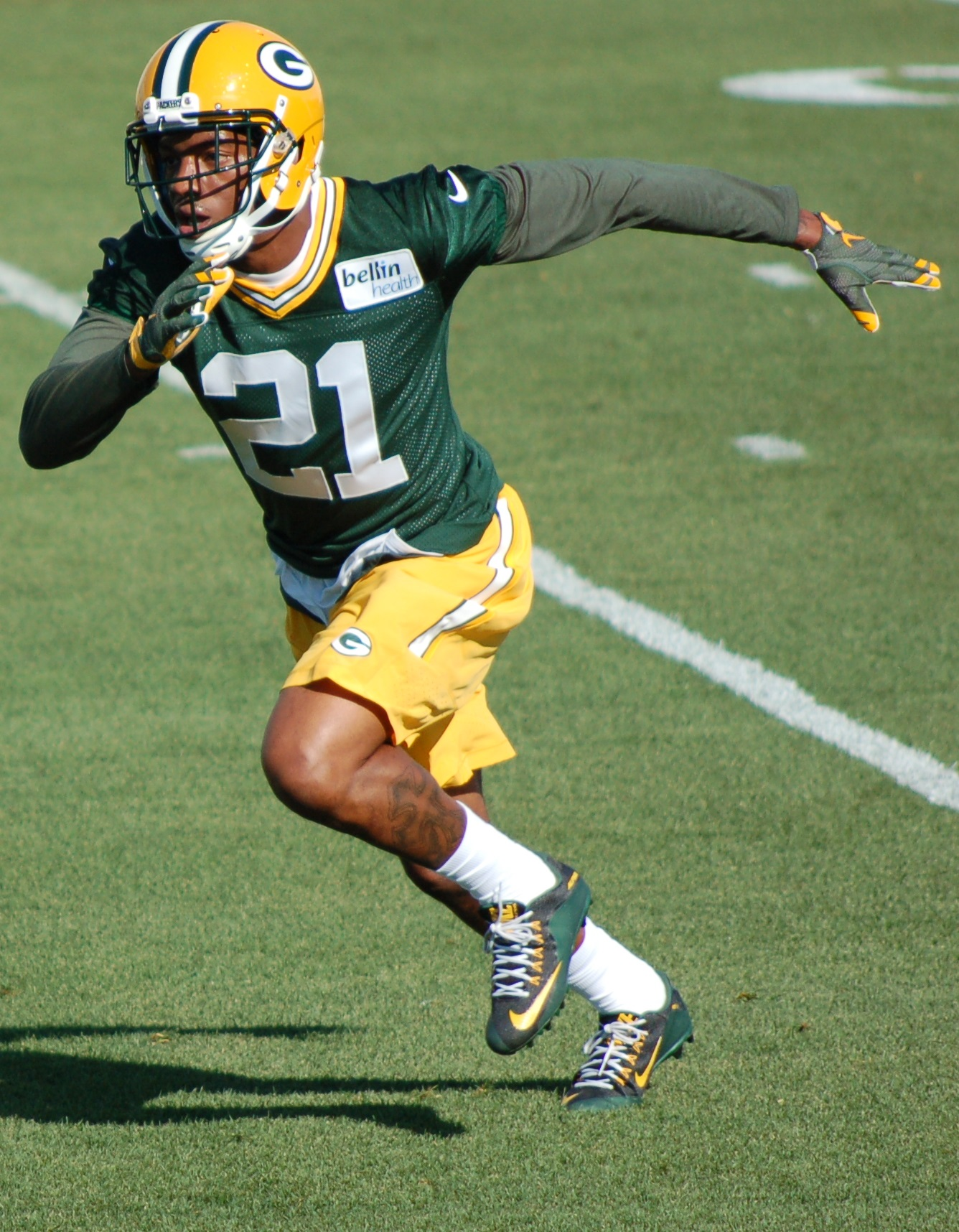 2015 Packers training camp